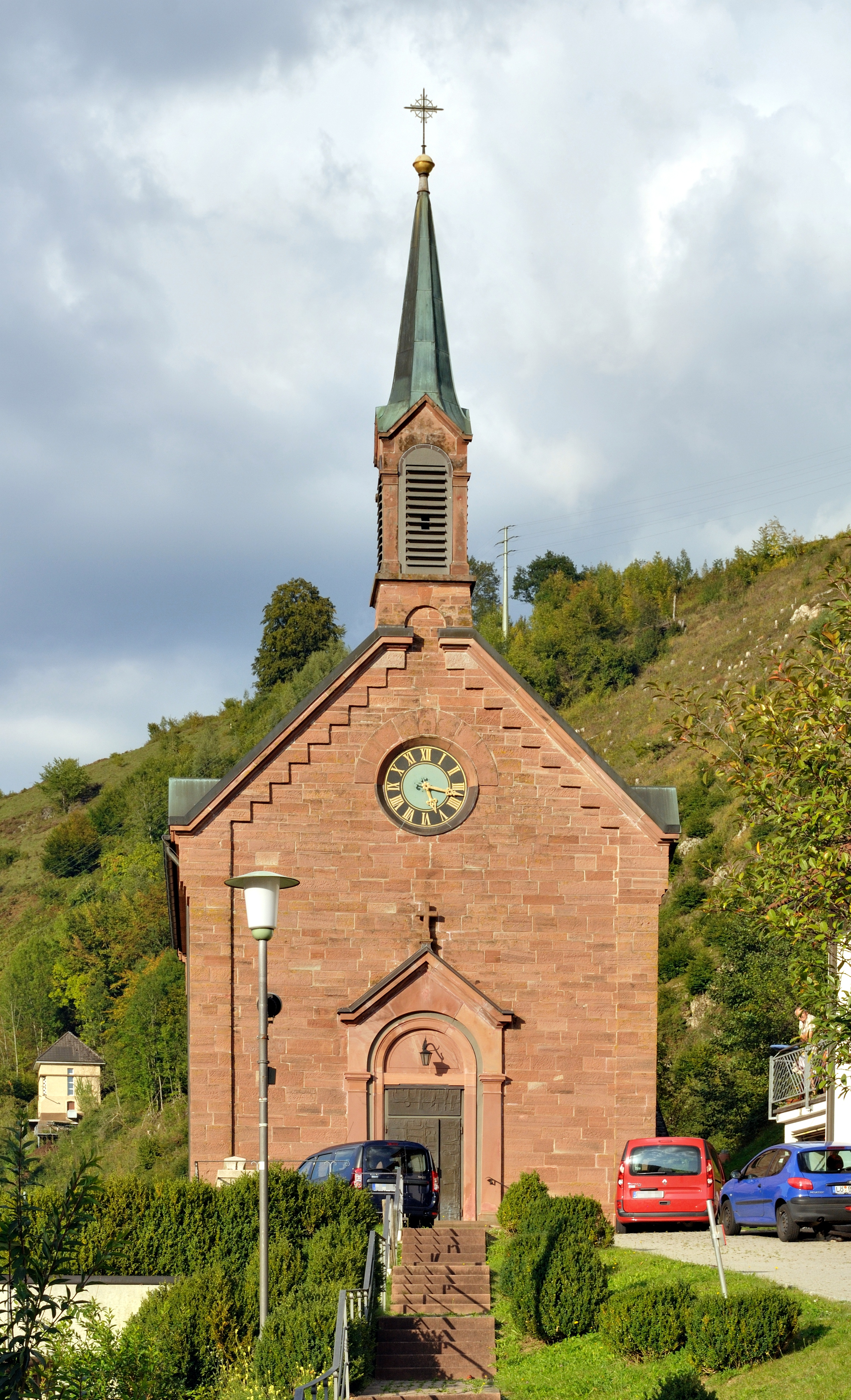 Zell im Wiesental: Antonius Chapel, Mambach